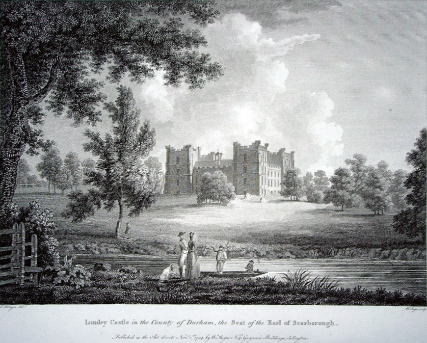 Lumley Castle in the County of Durham, copperplate